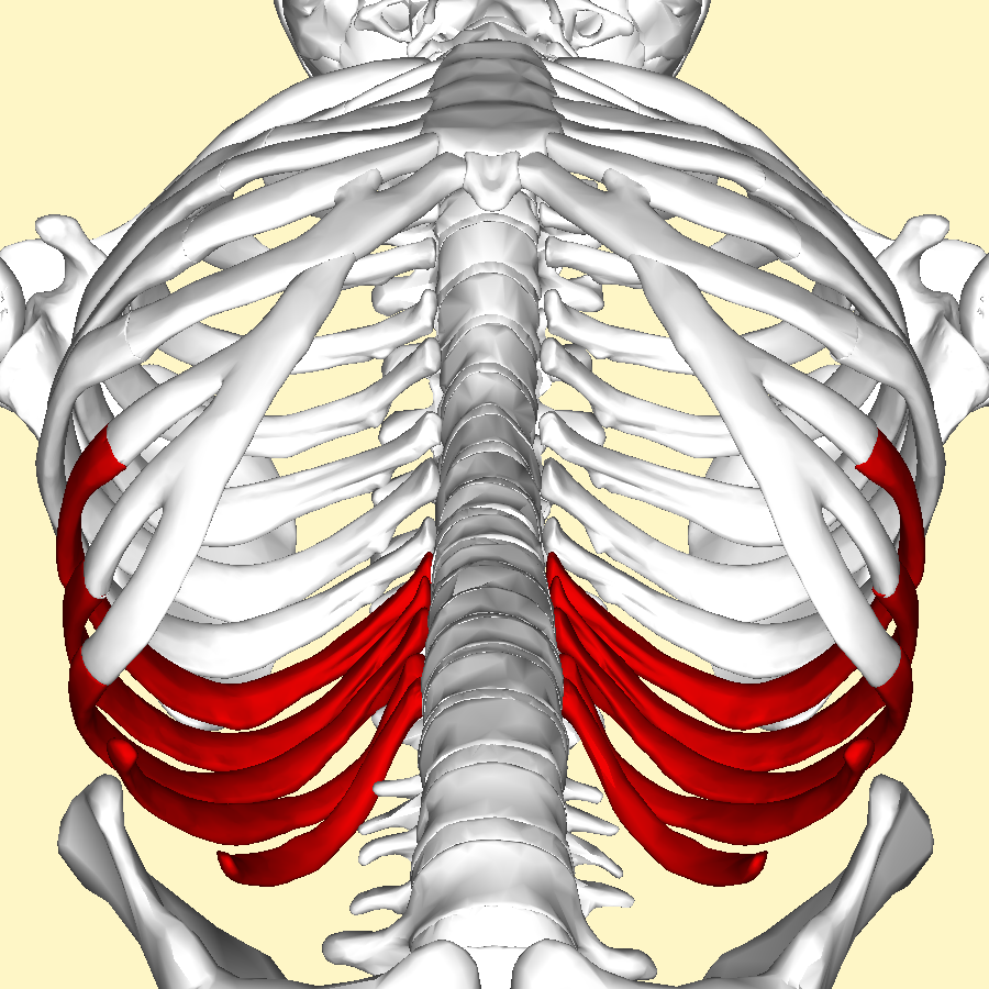 False ribs (shown in red).